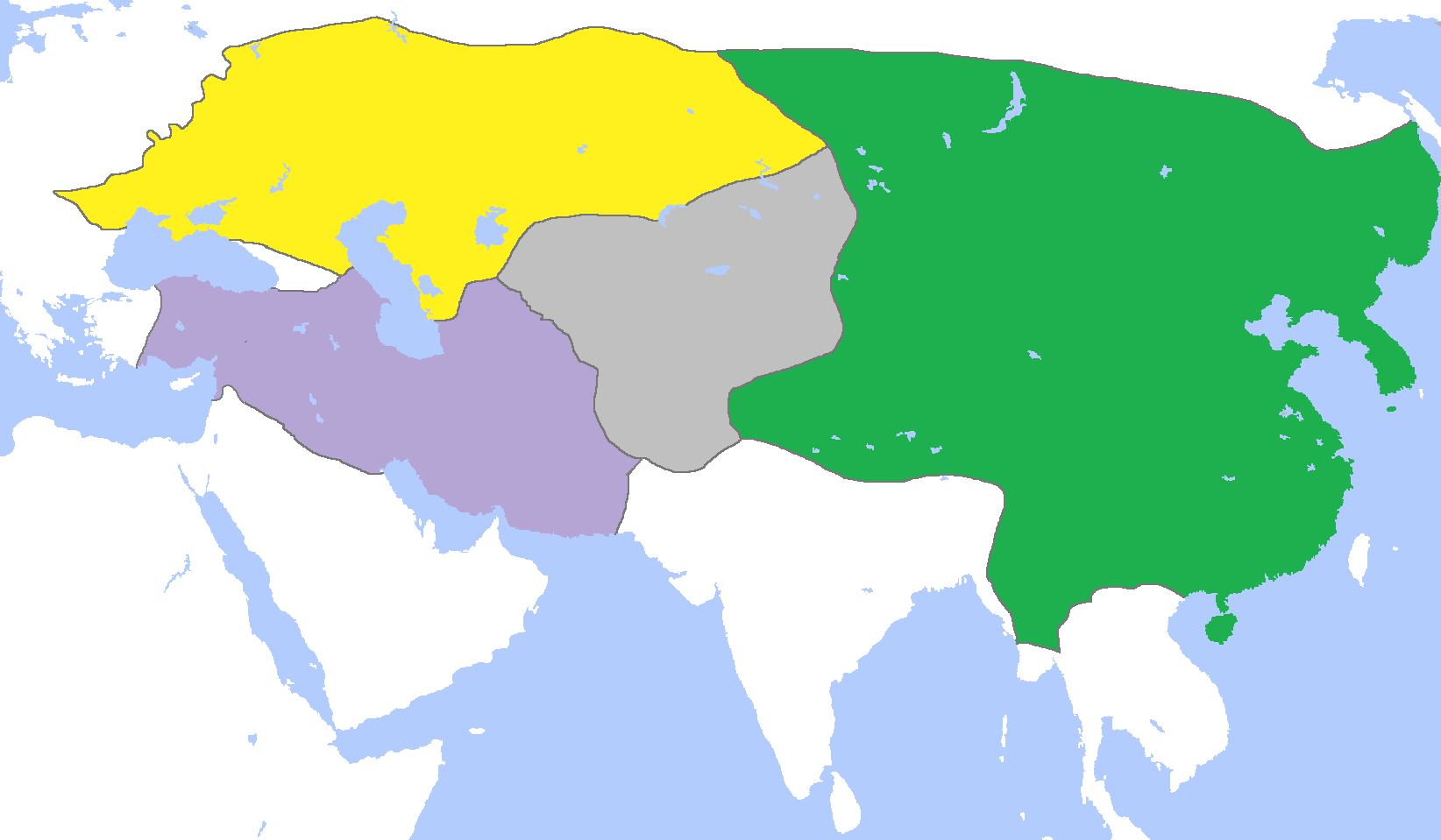 Map of the Mongol Empire c. 1300, after its four subdivisions into the: Golden Horde (yellow) Chagatai Khanate (gray) Great Yuan−Yuan Dynasty (green) Ilkhanate (purple). Credits (Partially based on Atlas of World History (2007) - The World 1200-1300, map)